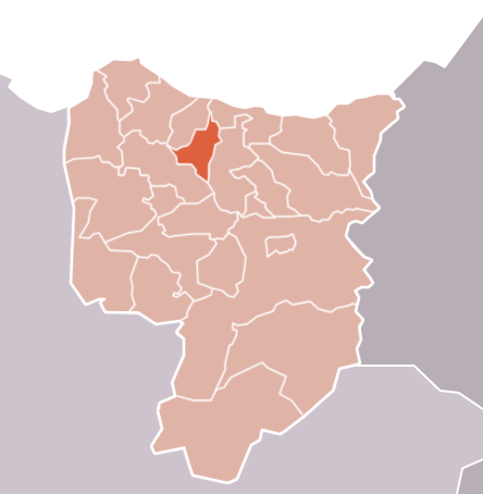 Talilit